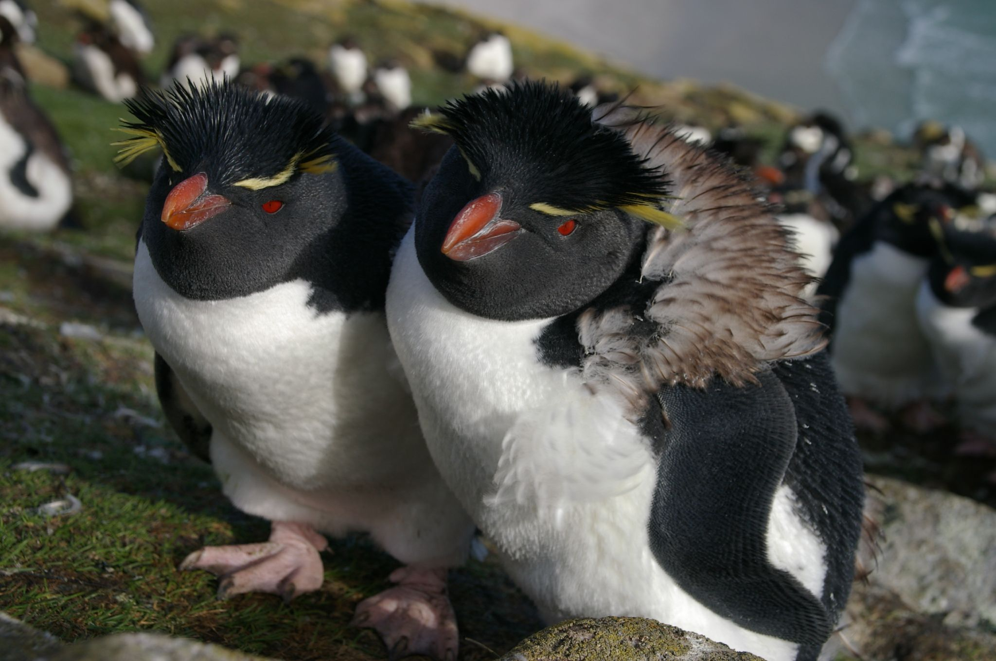 (Southern) Rockhopper Penguins (Eudyptes chrysocome), Saunders Island, Falkland Islands